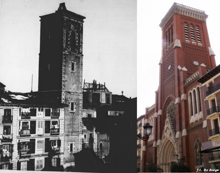 On the left: Old church of Santa Cruz (Madrid, Spain), demolished in 1868. On the right: New church of Santa Cruz (Madrid, Spain), in 2007. It was built in 1889-1902, by Francisco de Cubas.